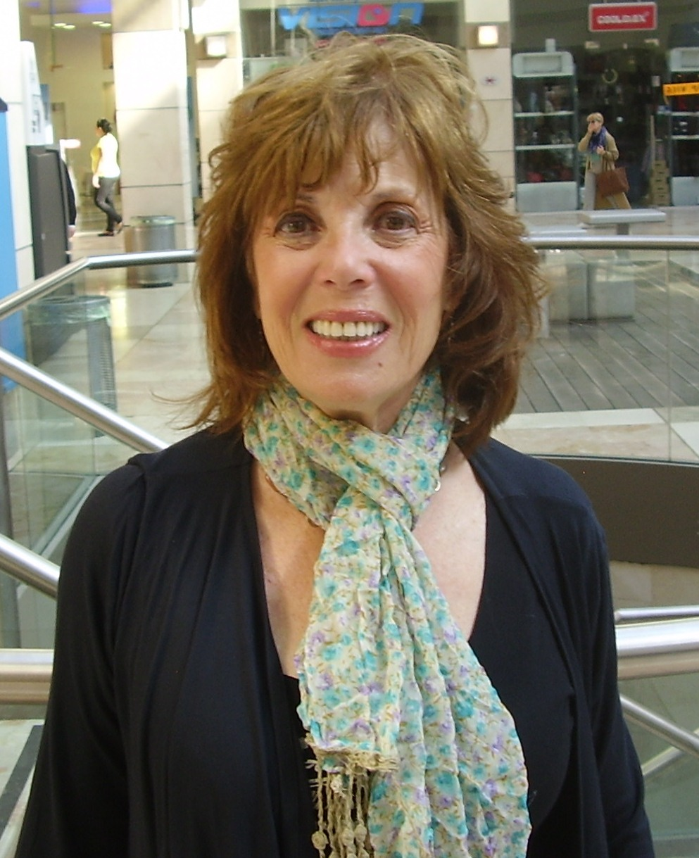 israeli singer, shula chen